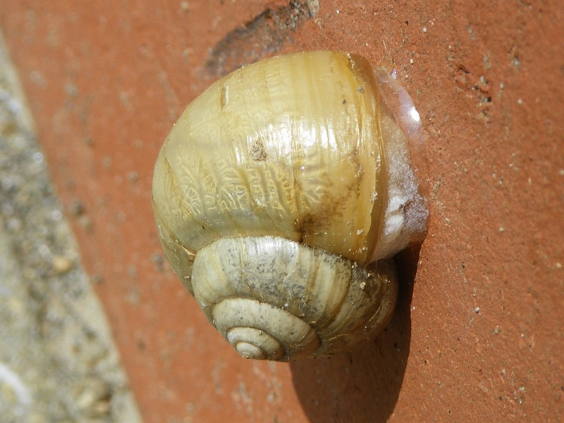 Acusta despecta sieboldiana(Pfeiffer,1850) at Nomozaki,Nagasaki